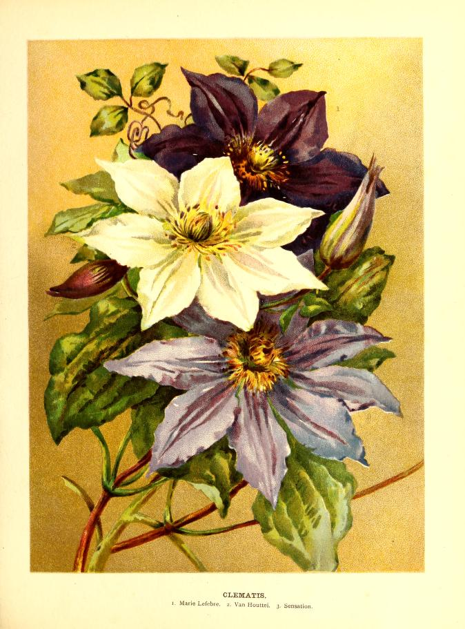 Clematis by Gertrude Hamilton (I. Marie Lefebre. 2. Van Houttei. 3. Sensation.) Plate 4 Vol 1 Flower grower's guide by John Wright, London. Virtue and Company, [1898?].